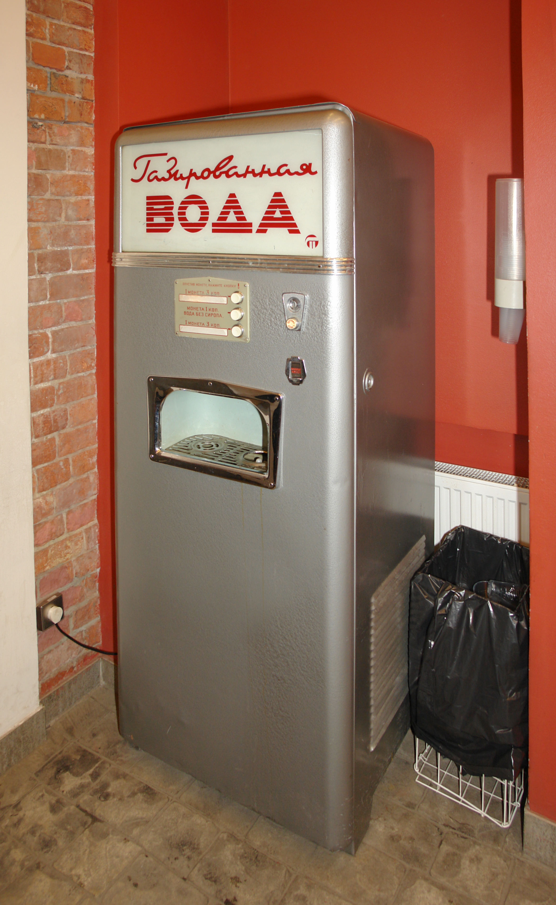 A Soviet carbonated-water vending machine. Machines like this were ubiquitous in Soviet cities, but now are mostly gone. This specimen is exhibited in the Water Museum in St Petersburg, and is still operational